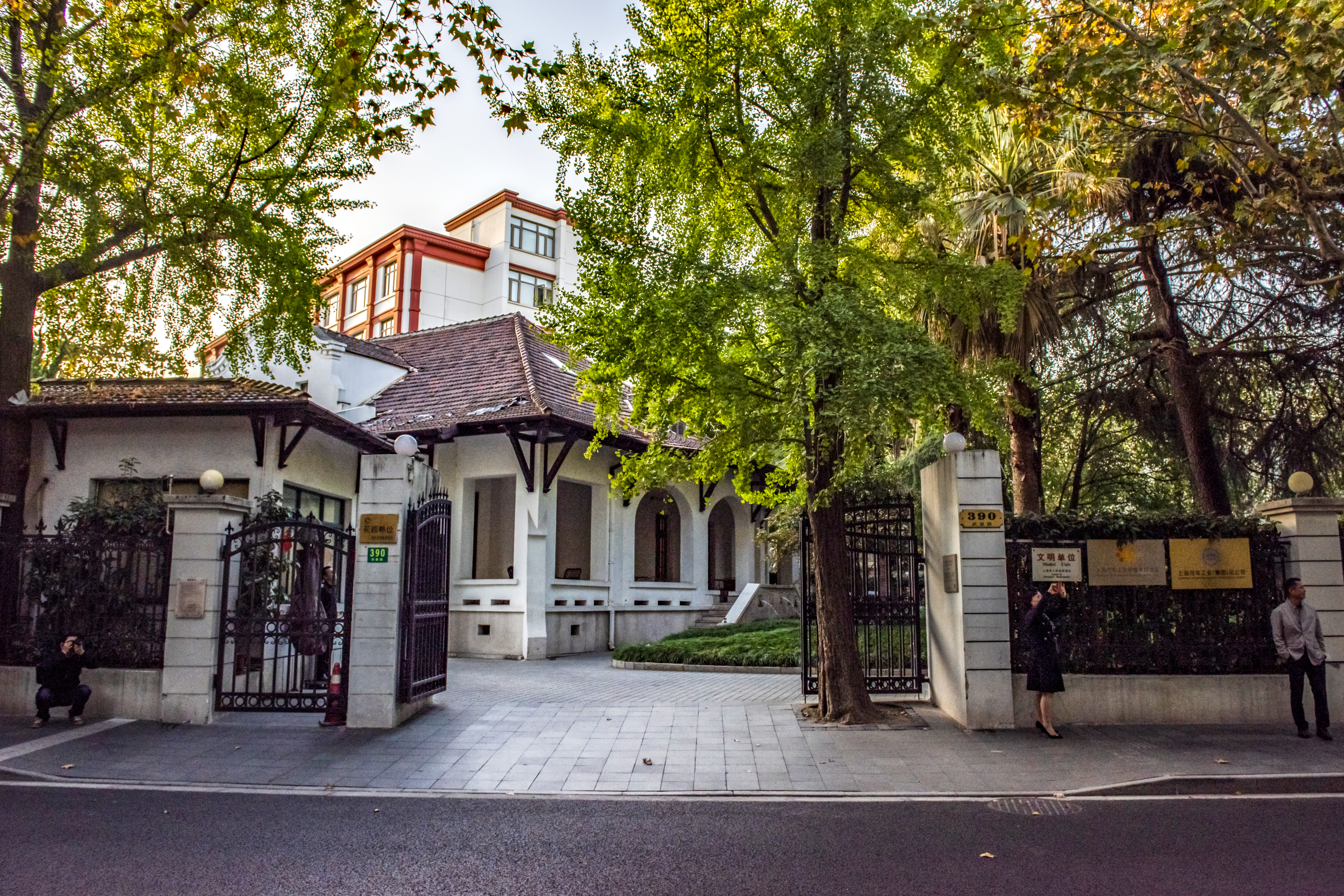 Now SAIC Motor?